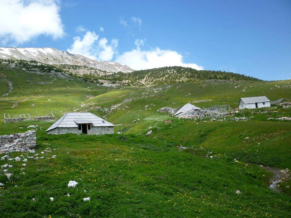 Bjeshket e Kukesit ne pranvere. Foto e shkrepur tek Kroi i Kuq, ku bimesia e shumellojshme, bimet mjekesore, panorama dhe terheqja natyrore eshte e jashtezakonshme